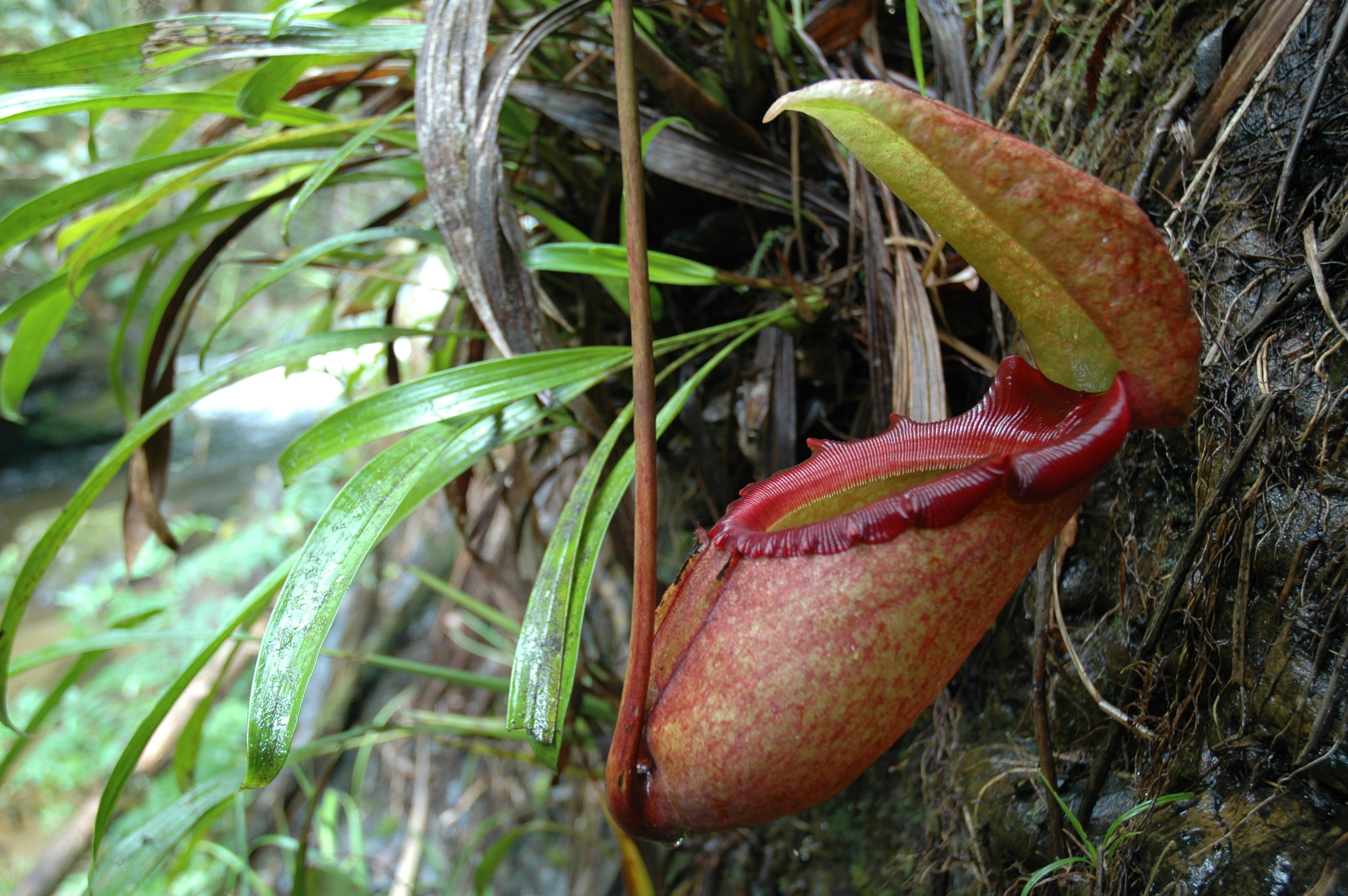 Nepenthes rajah Kinabalu water fall by Jeremiah Harris